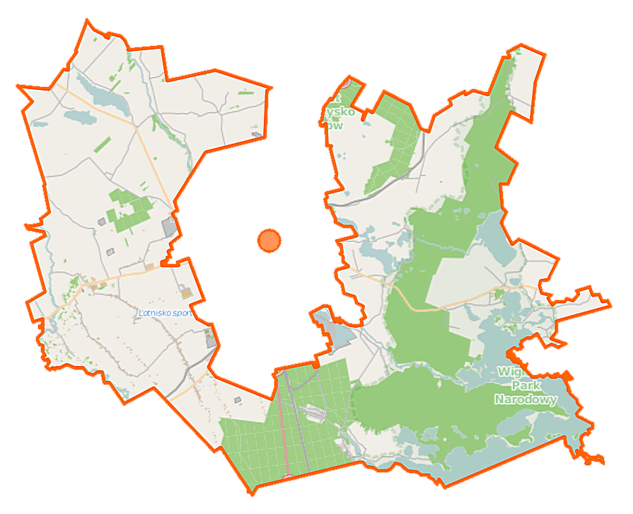 Map of Gmina Suwałki, Poland This map of Suwałki (gmina) was created from OpenStreetMap project data, collected by the community. This map may be incomplete, and may contain errors. Don't rely solely on it for navigation. Border coordinates54.191422.7589←↕→23.167453.9973